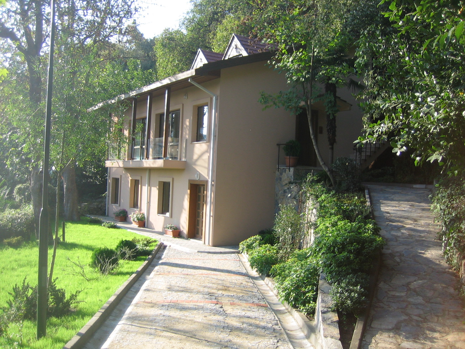 Side view of Istanbul Center for Mathematical Sciences